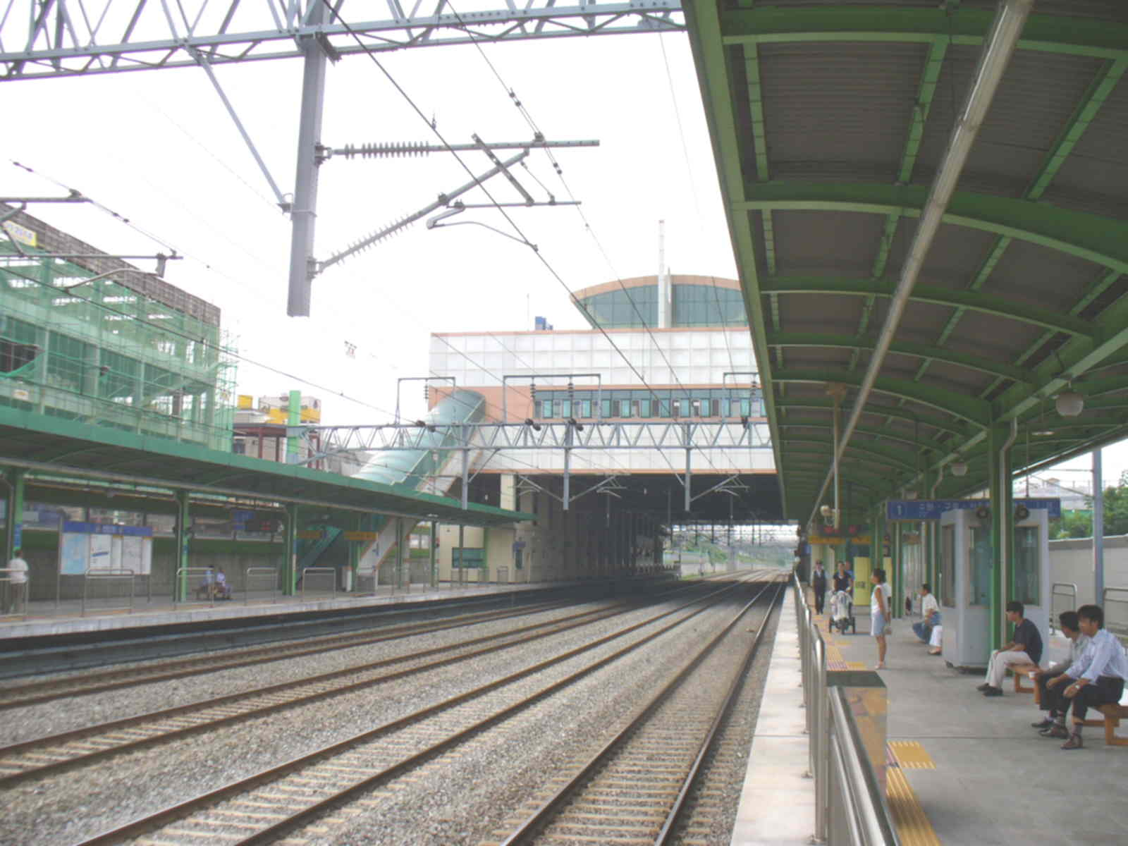 Songtan station platform